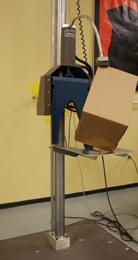 Drop tester to simulate shocks to packaged product from material handling during shipment